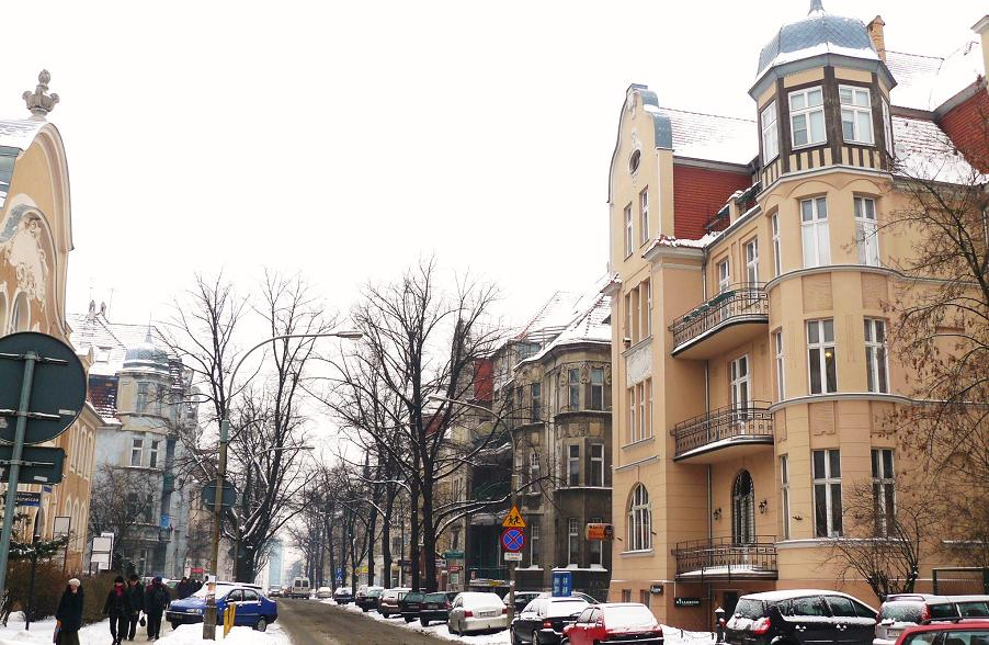 Residentional District in Poznan-Jezyce (Slowackiego Street).